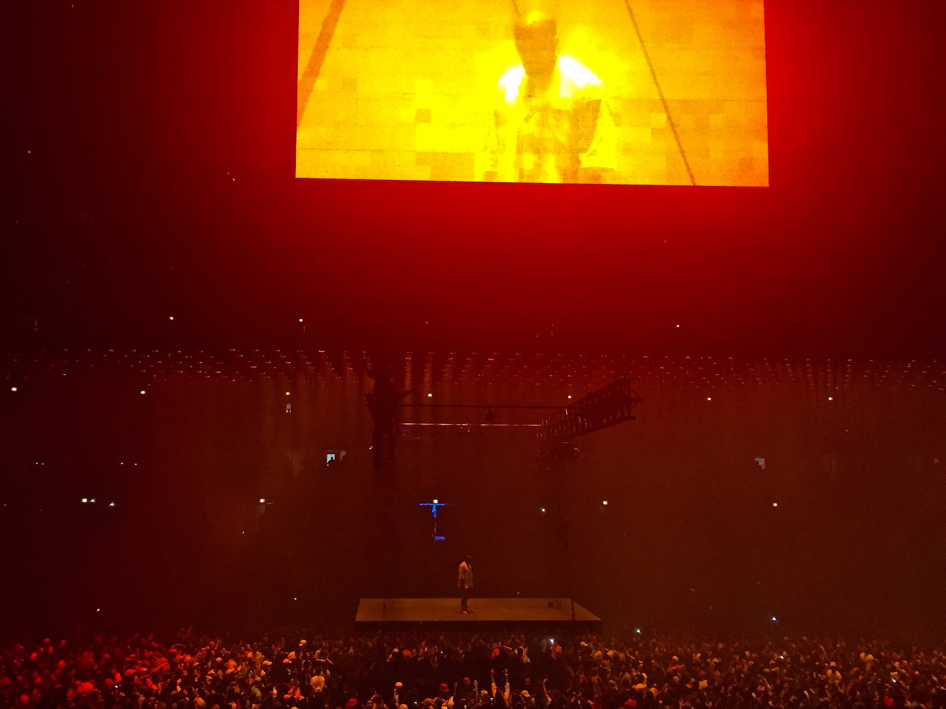 Kanye West is seen performing during his Saint Pablo Tour in Chicago, Illinois on October 7, 2016.